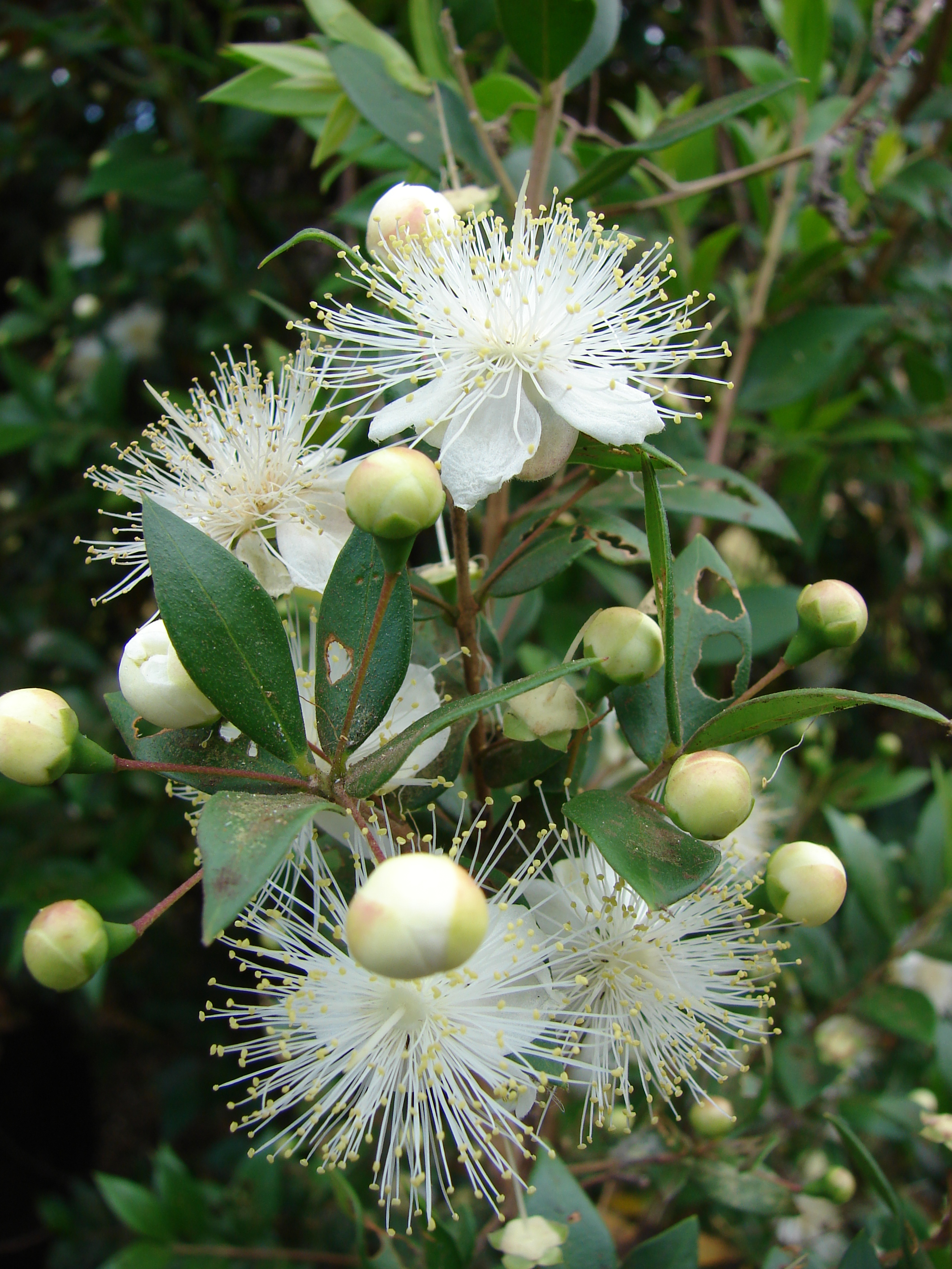 Myrtus communis (flowers). Location: Maui, Lower Kimo Dr Kula